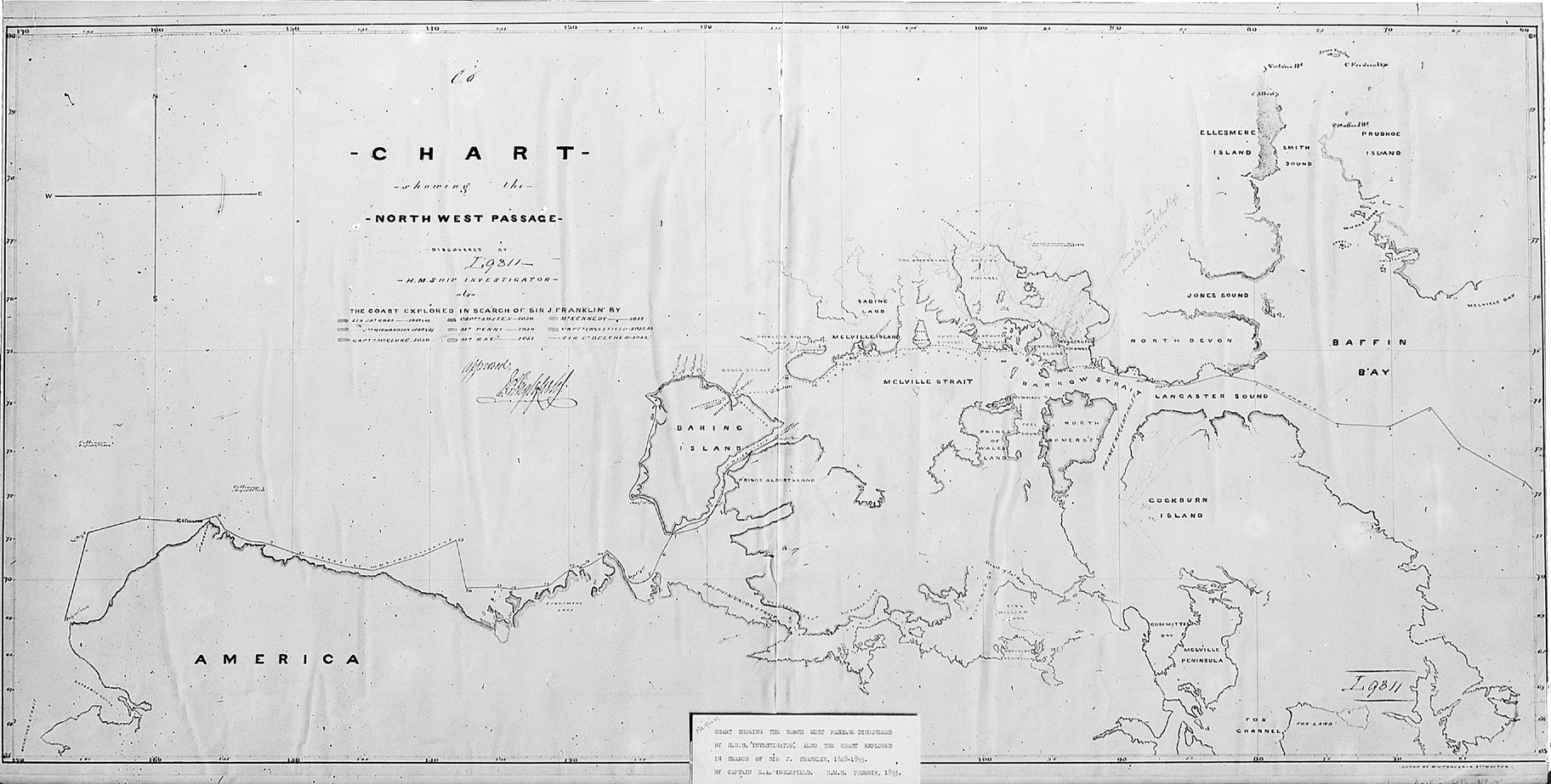 Chart showing the North West Passage, discovered by H.M.S. Investigator. Wellcome Images Keywords: Topography; Exploration